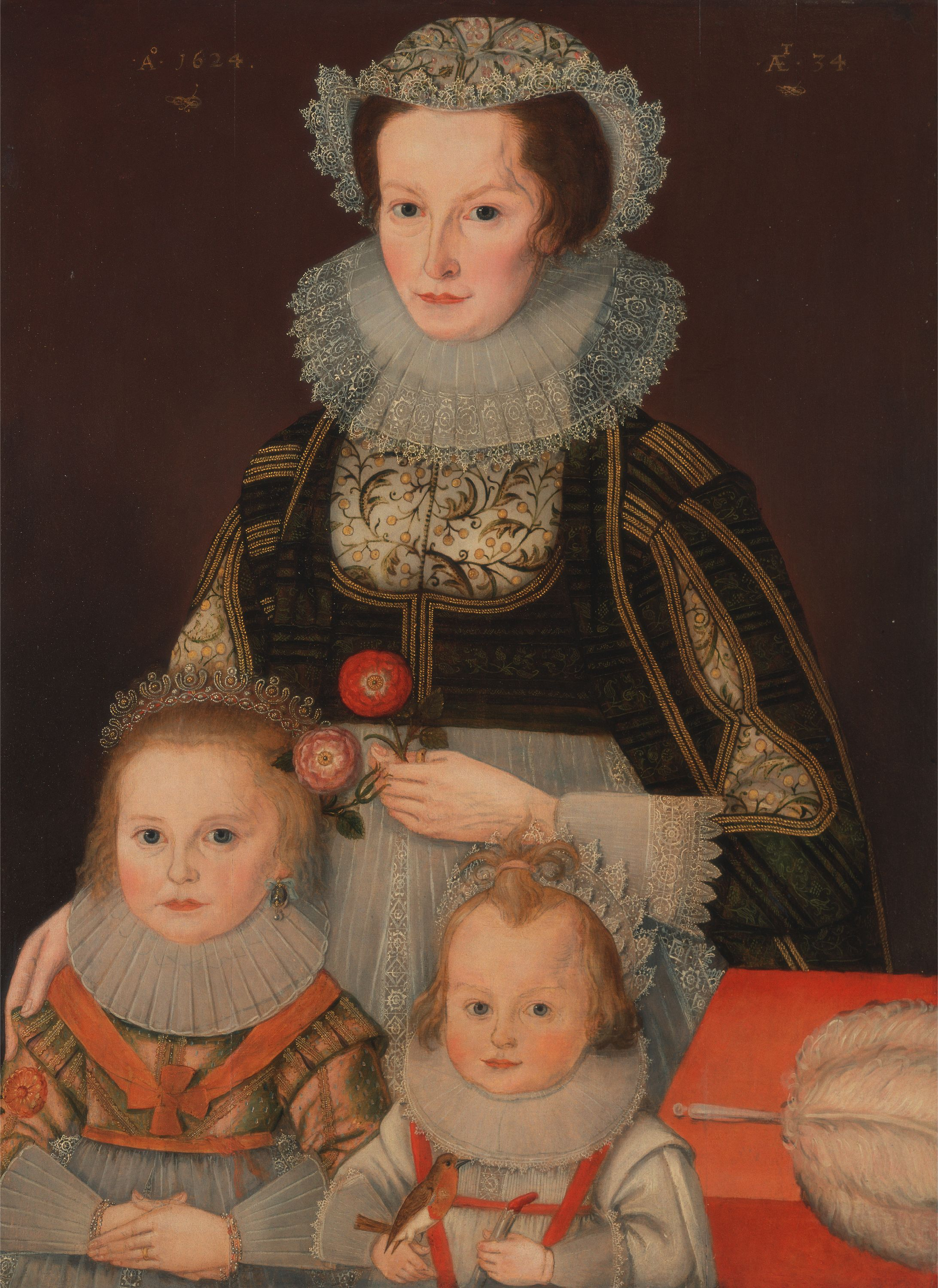 Portrait of a Lady and Her Two Children, dated 1624